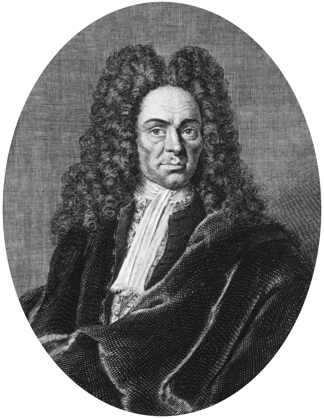 Jacob Leupold (1674-1727), famous saxon physicist, scientist and mathematician.